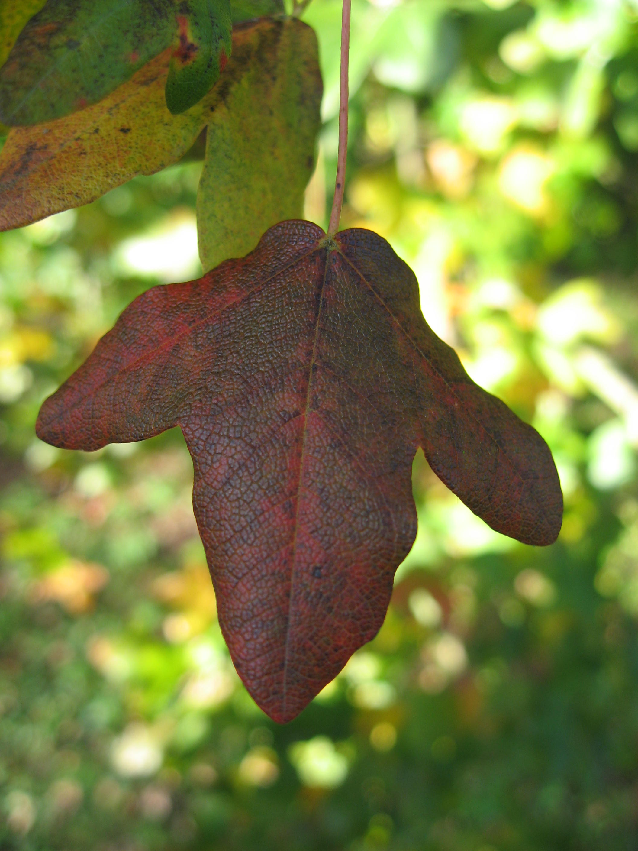 Acer monspessulanum in Arboretum de La Roche-Guyon Map: 49° 5' 56" N 1° 38' 23" E